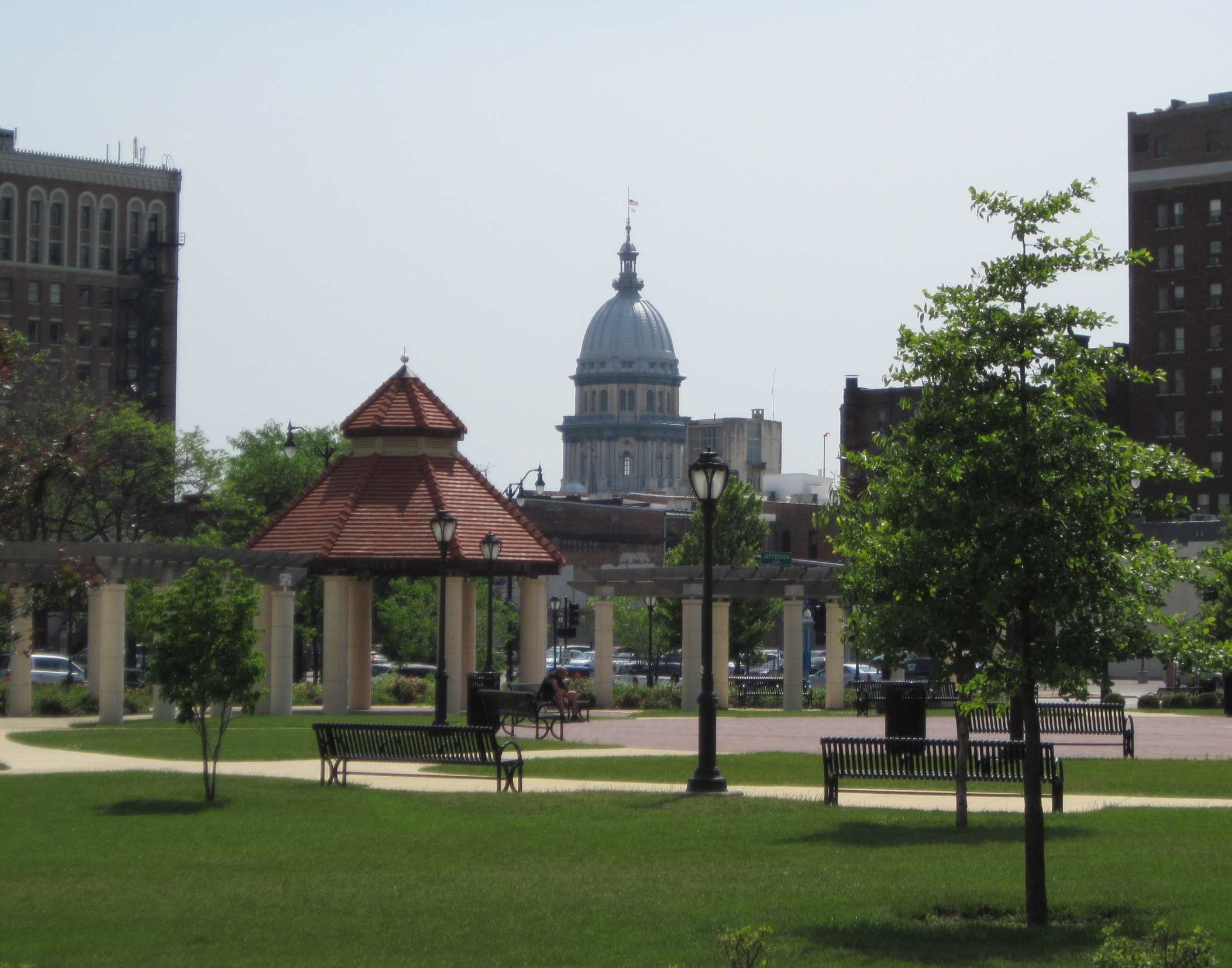 Illinois State Capitol dome from the park area on the south side of Springfield Union Station, Springfield, Illinois